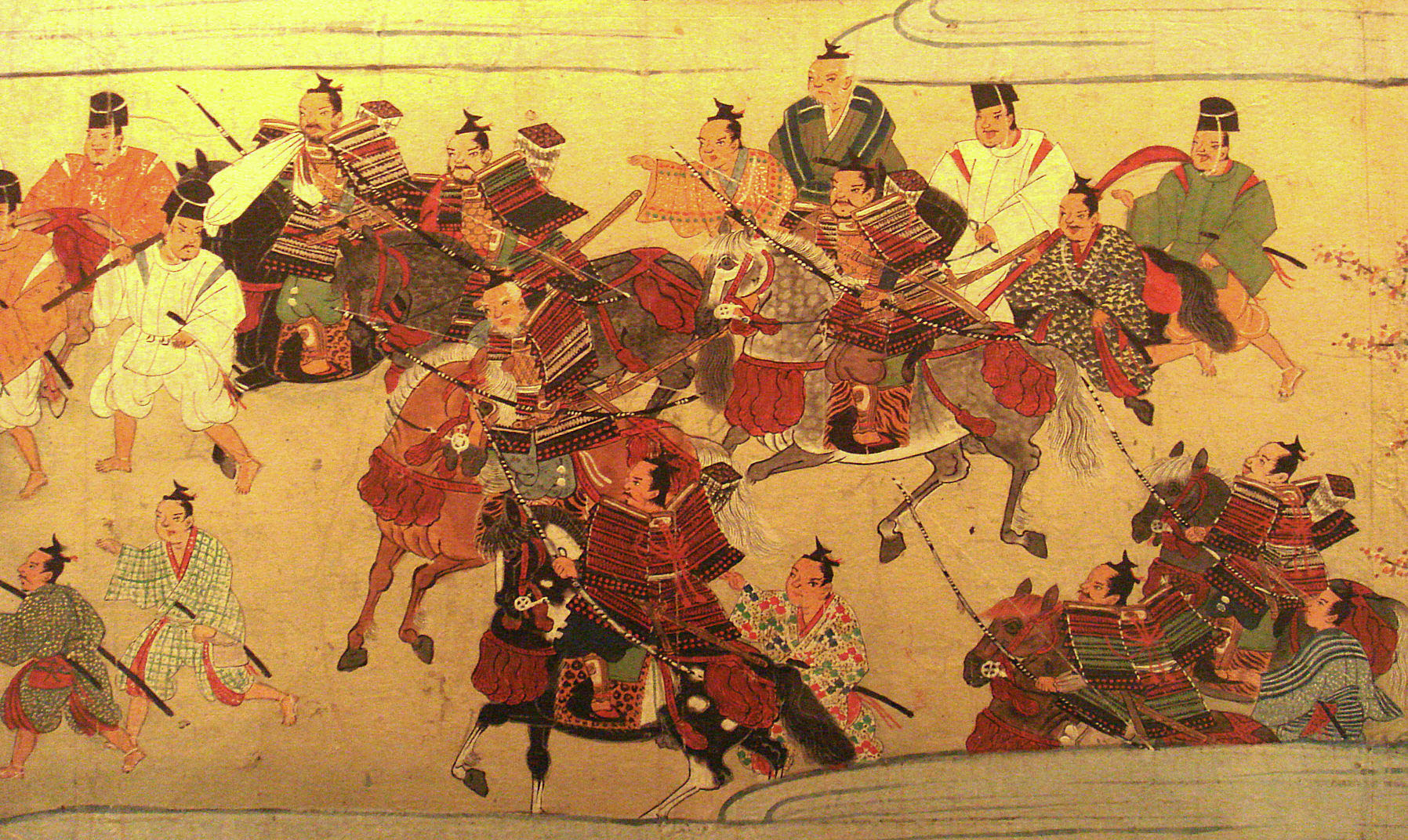 Muromachi period bushi, 1538